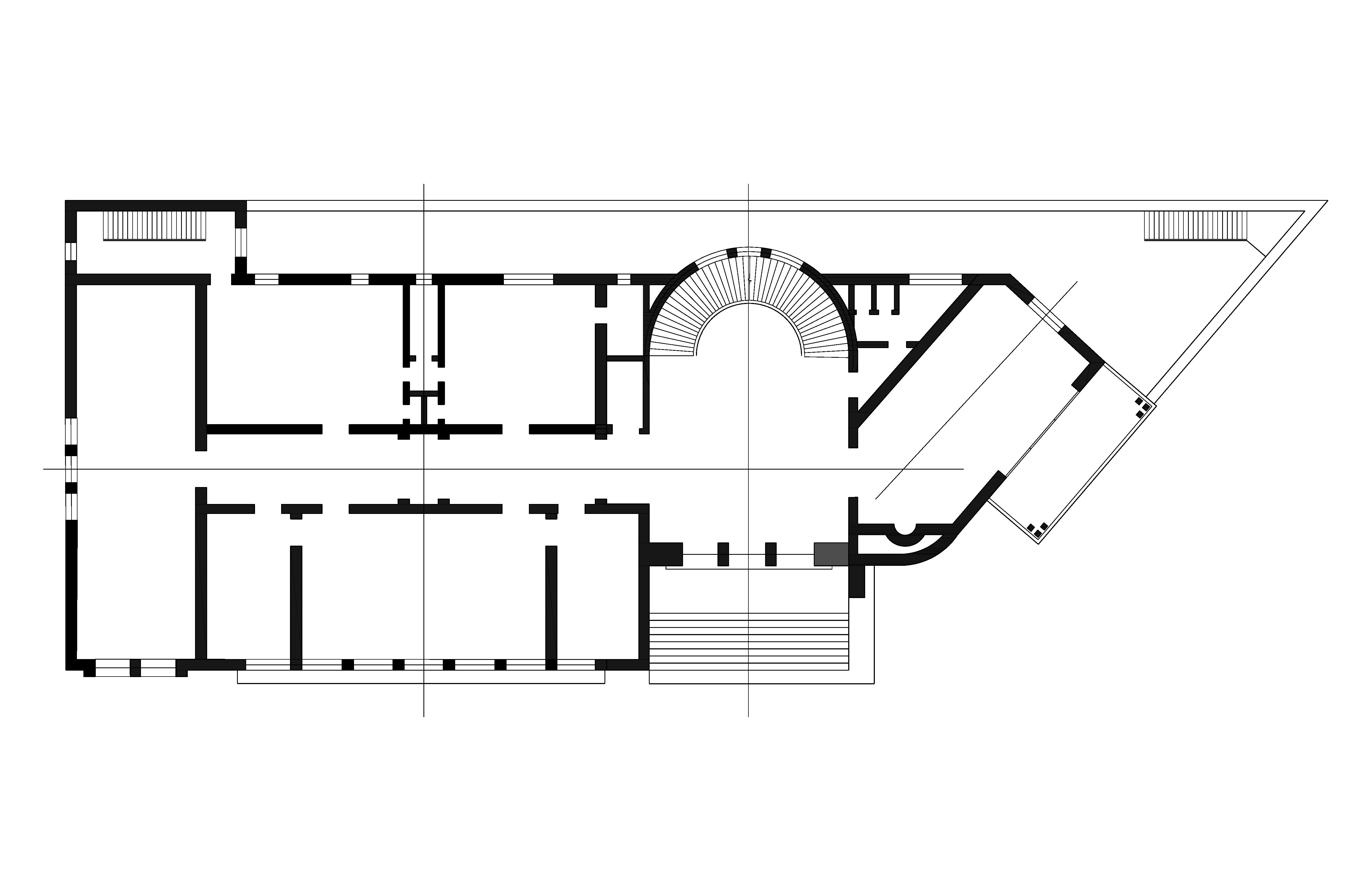 Colegio de Arquitectos de La Habana_Autocad.Floor.Plan